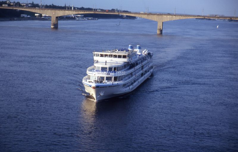 Ship on the river Kama and bridge.